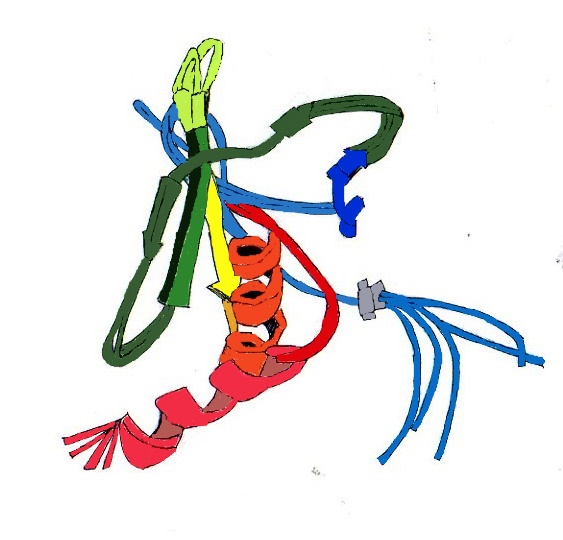 FERMT 3